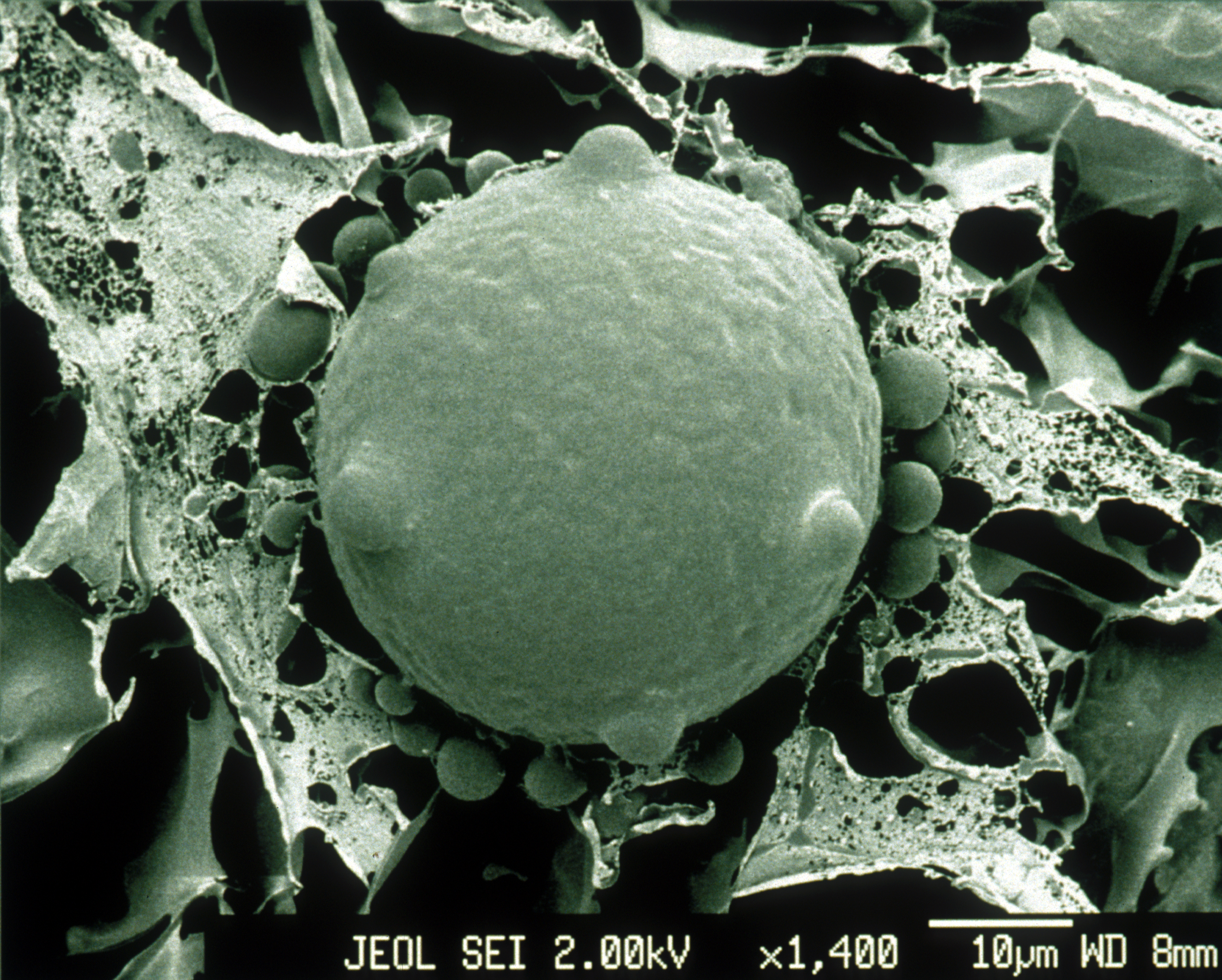 Scanning electron micrograph of a frozen intact zoospore and sporangia of the chytrid fungus (Batrachochytrium dendrobatidis). The fungus is one of the worst killers of Australian frogs. The fungus was first discovered in dead and dying frogs in Queensland in 1993. Research has now shown the fungus is widespread across Australia and that it has been present in the country since at least 1978. Photo credit: Dr Alex Hyatt, CSIRO Livestock Industries' Australian Animal Health Laboratory (AAHL).